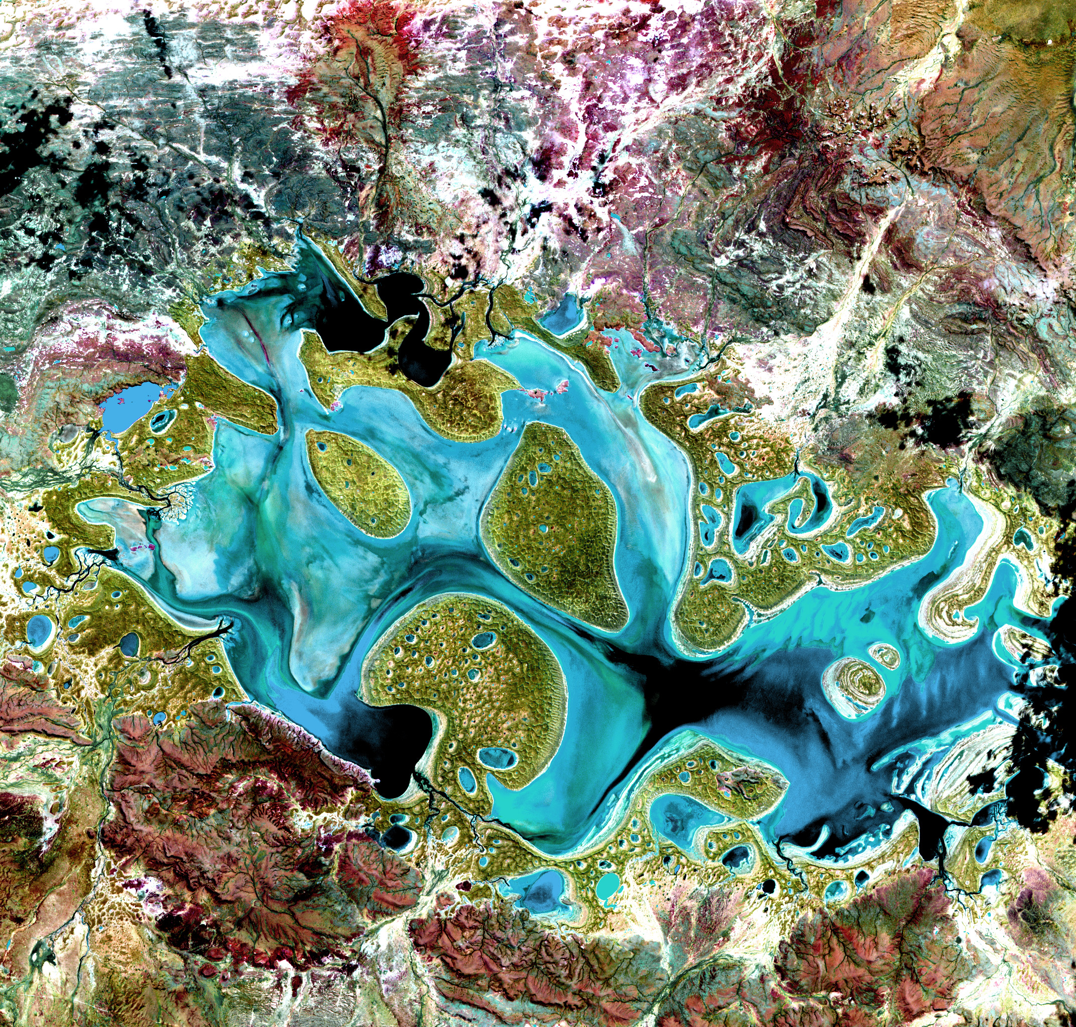 Ephemeral Lake Carnegie, in Western Australia, fills with water only during periods of significant rainfall. In dry years, it is reduced to a muddy marsh. This image was acquired on May 19, 1999, by Landsat 7’s Enhanced Thematic Mapper plus (ETM+) sensor. This is a false-color composite image made using shortwave infrared, infrared, and red wavelengths, and has been sharpened using the sensor’s panchromatic band. Credit: NASA/GSFC/USGS EROS Data Center